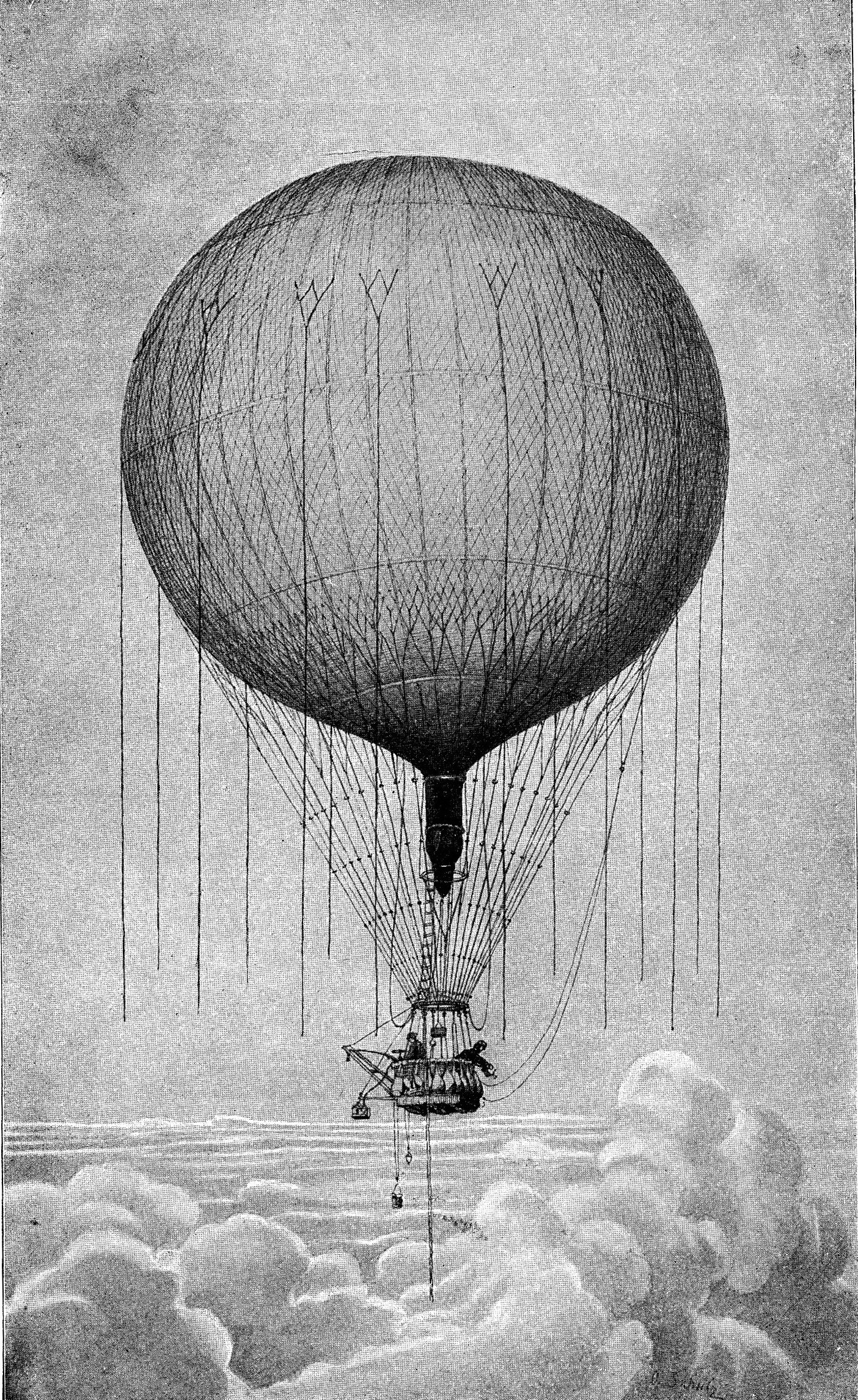 Balloon Humboldt, 1893, drawn by Hans Groß